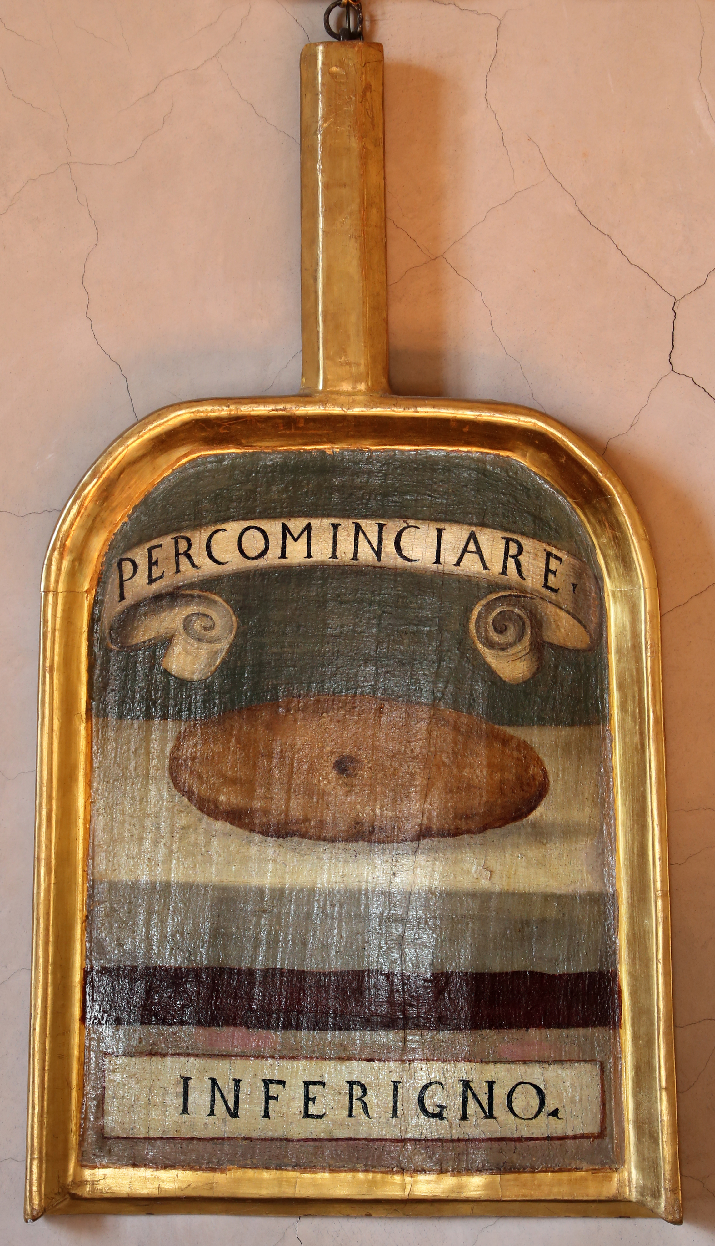 Shovels of Accademici della Crusca